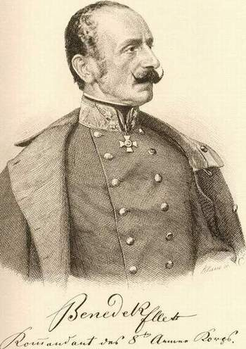 Picture of general Ludqig von Benedek